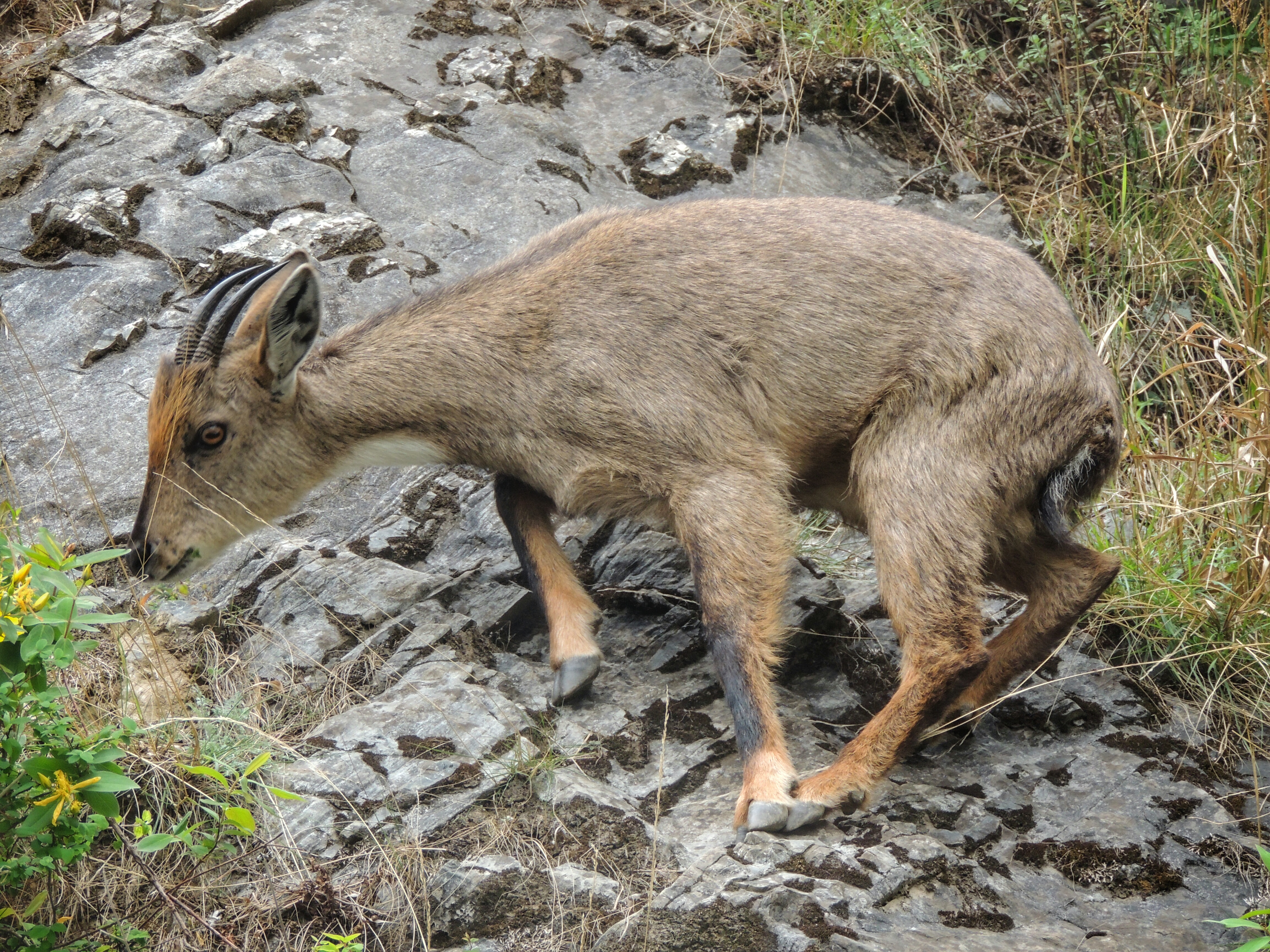 On a trek near Jammu I found this beautiful creature finding food right next to my trekking path. For first I thought it was a deer but on research I found that it is a type of goat.